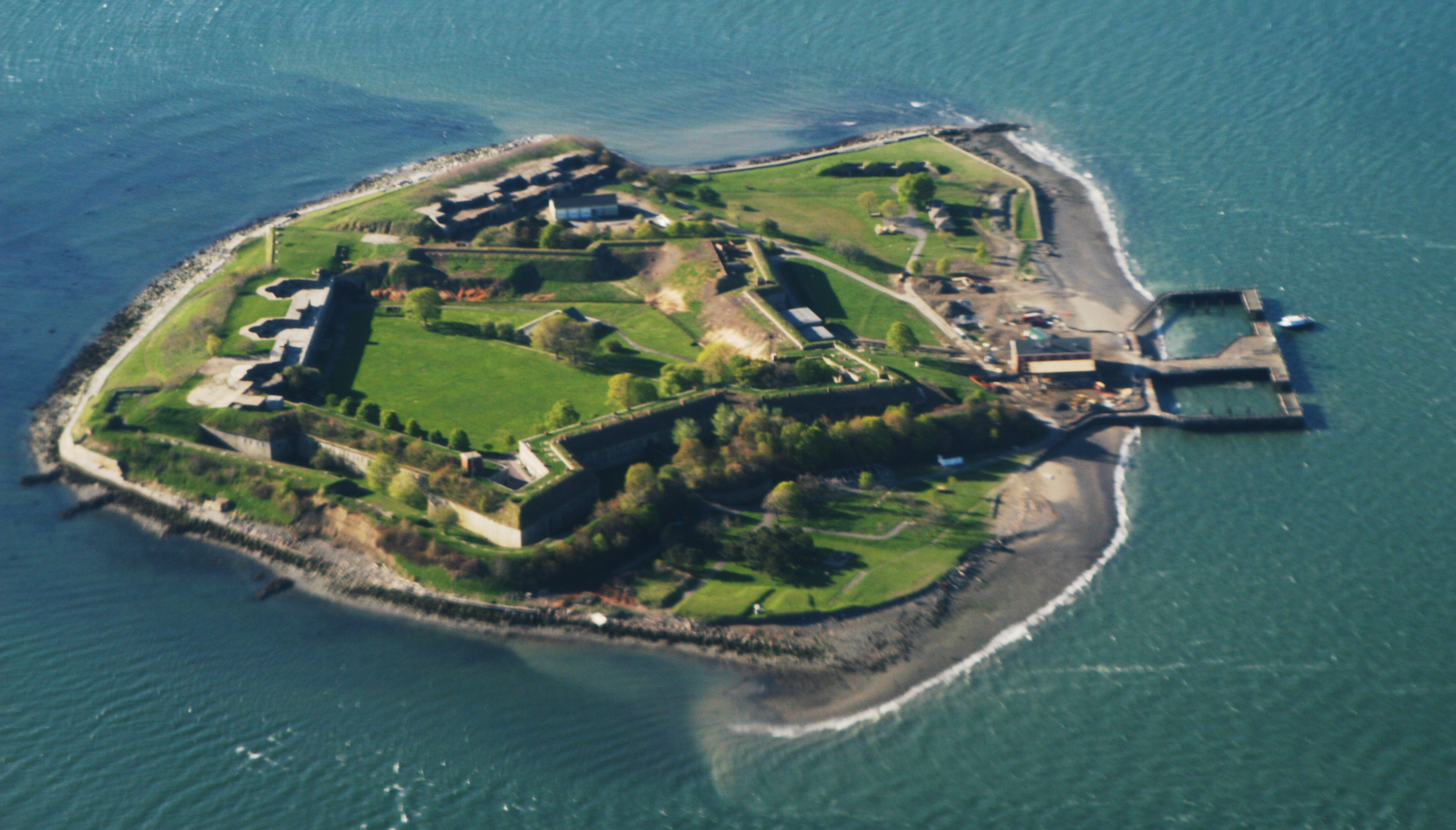 [#//en.wikipedia.org/wiki/Georges_Island_(Massachusetts) Georges Island] and Fort Warren in Boston Harbor, and part of the Boston Harbor Islands National Recreation Area